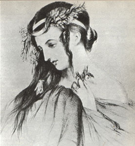 Cropped image of Harriet Smithson as Ophelia from title page of La Mort d'Ophélie